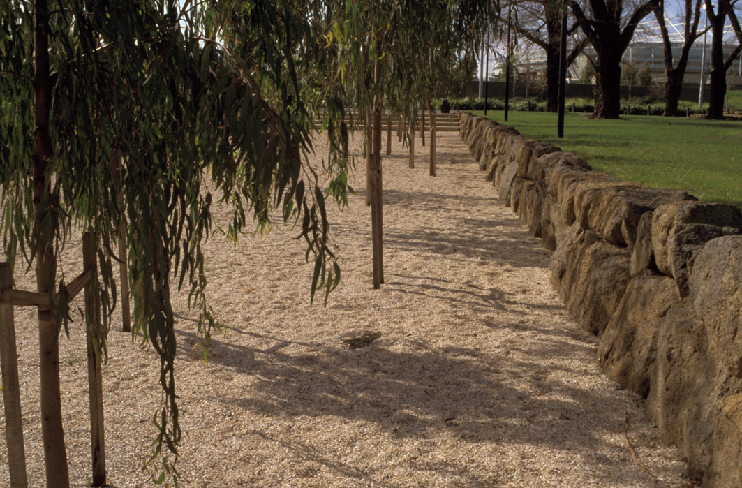 Shellgrit-surfaced drainage channel in Birrarung Marr, Melbourne. Photo by R Jones. Image scanned from 35mm slide.